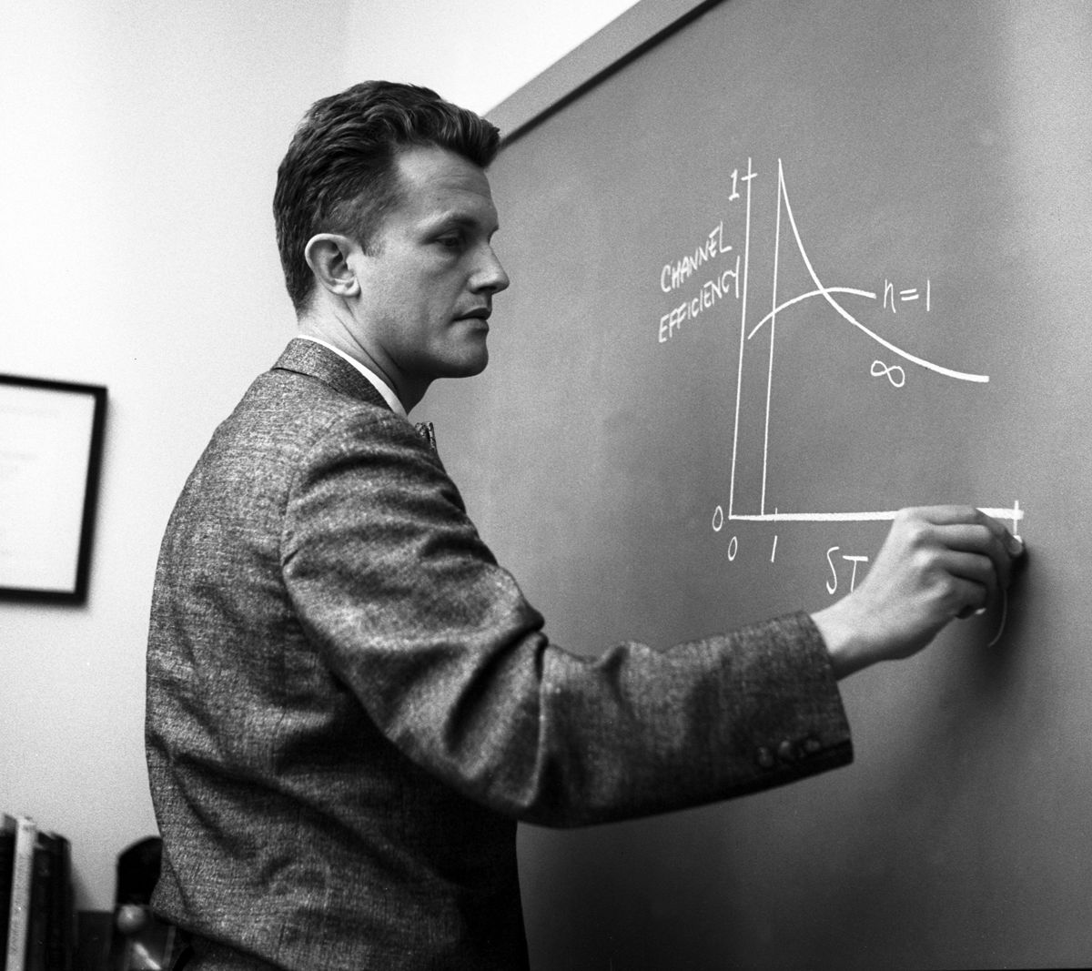 Eberhardt Rechtin, a respected authority in aerospace systems. Photograph Number P-1490B